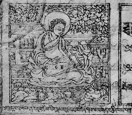 The Tibetan Astronomer Pelgön Thrinle (2nd half 15th century to 1 half 16th century) according to a Tibetan blockprint of the Vaidurya dkar po (1685)